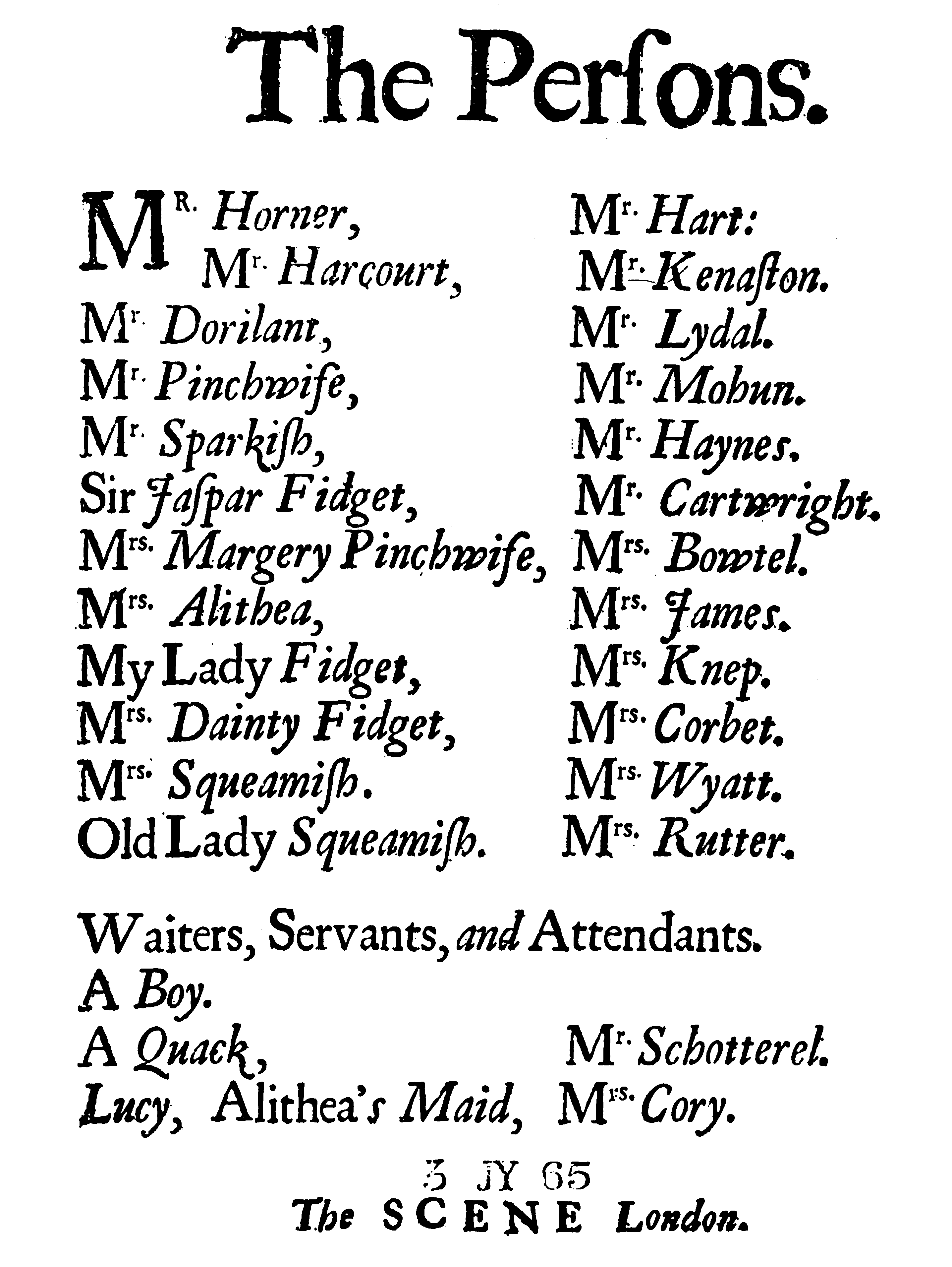 This image was scanned by the uploader from a facsimile edition (Scolar Press, Menston, England, 1970) of the first edition (1675) of William Wycherley's "The Country Wife".